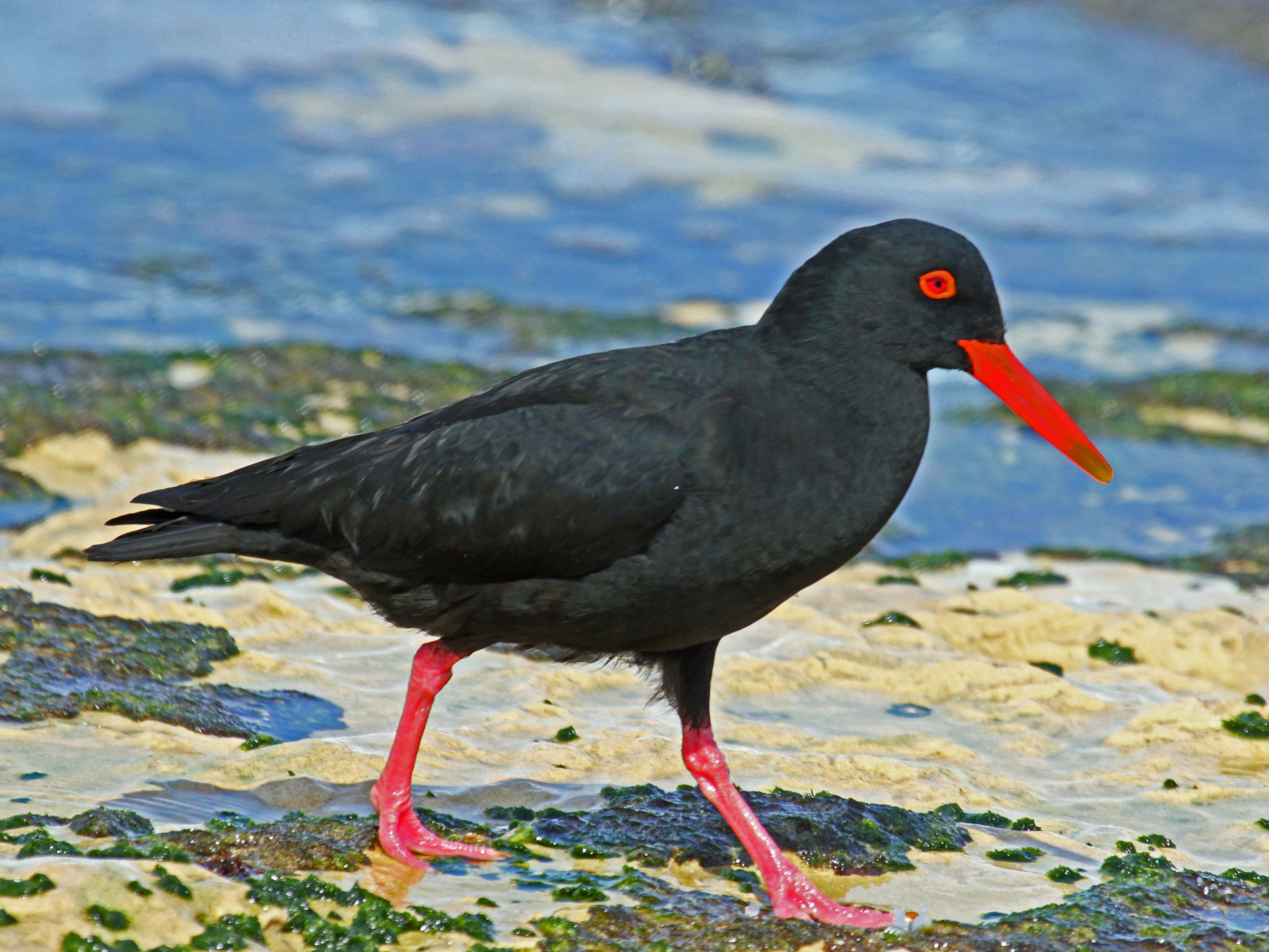 African Black Oystercatcher, also African Oystercatcher (Haematopus moquini) - De Hoop Nature Reserve, South Africa